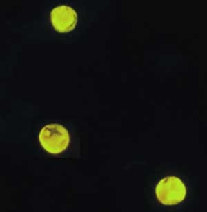 Oocysts of Cryptosporidium parvum stained with the fluorescent auramine-rhodamine stain. Obtained from the CDC Laboratory Identification of Parasites of Public Health Concern.